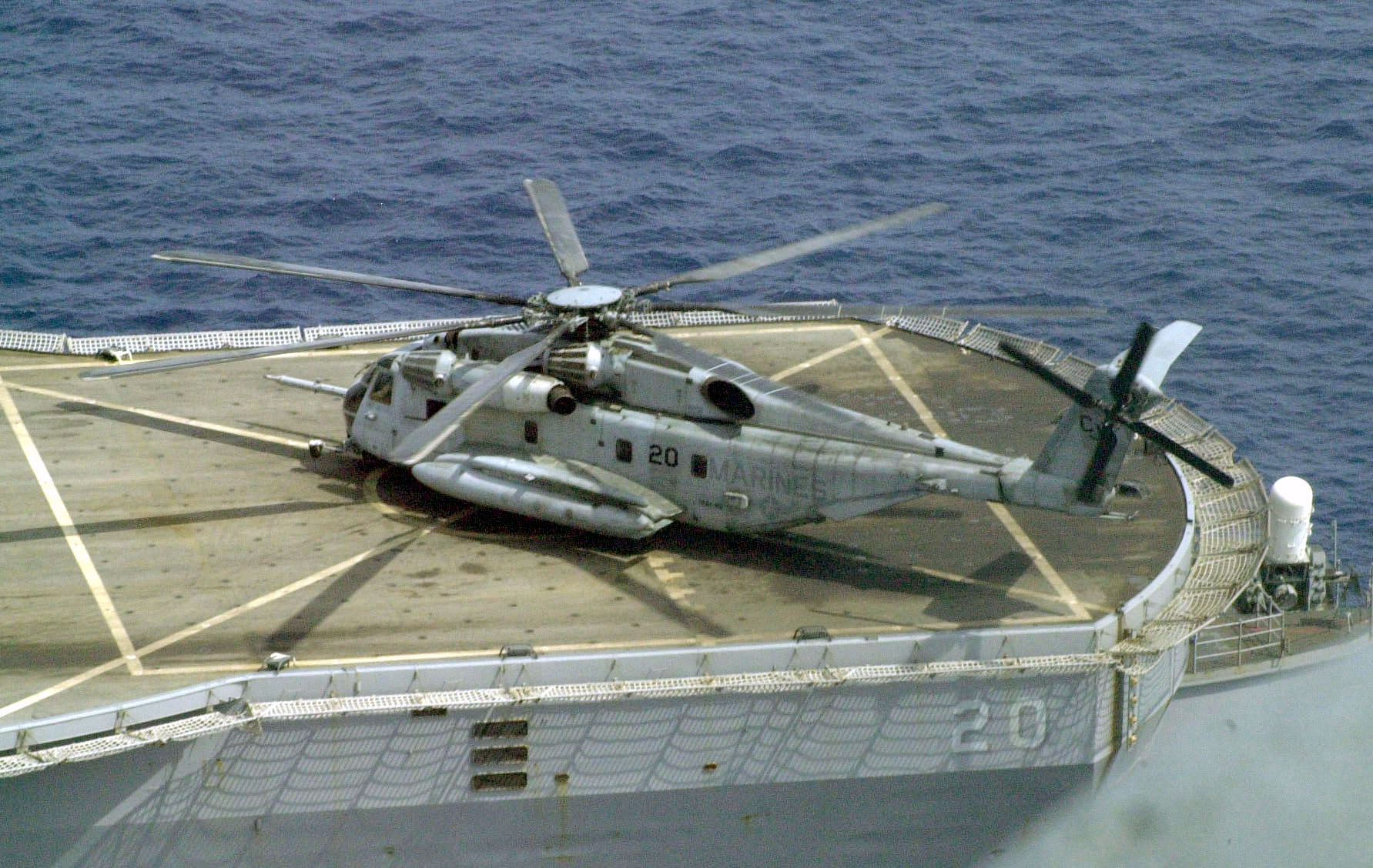 Gulf of Aden (Apr 29, 2003) – A CH-53E Super Stallion helicopter assigned to Marine Heavy Helicopter Squadron Four Sixty One (HMH-461) lands on the flight deck of the USS Mount Whitney (LCC/JCC 20). Mount Whitney and HMH-461 are deployed in support of Combined Joint Task Force – Horn of Africa (CJTF-HOA). U.S. Navy photo by Cpl. Andrew W. Miller. (RELEASED)